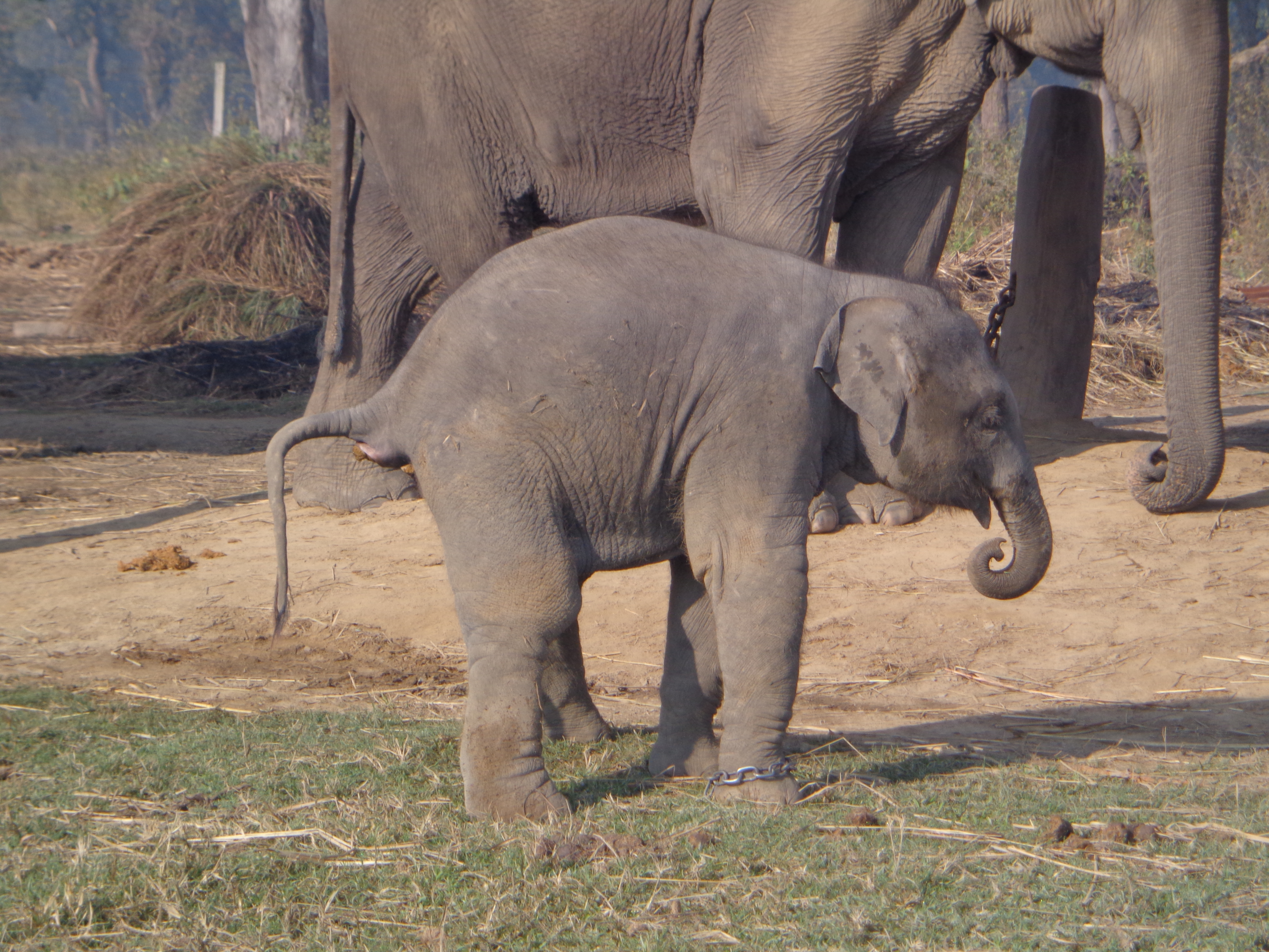 Baby Elephant in Elephant Breeding Station, Chitwan, Nepal